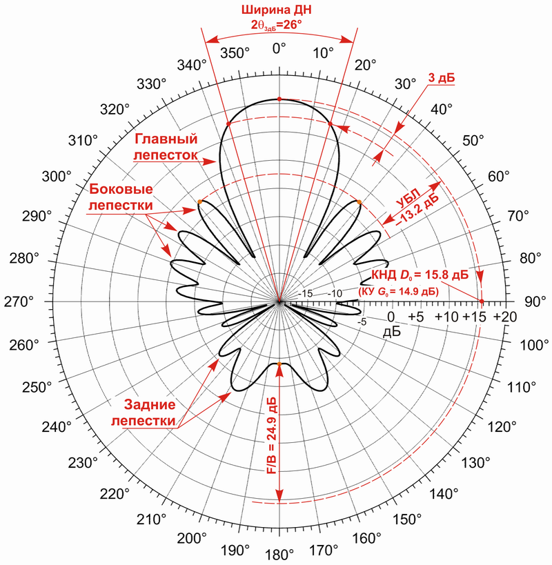 Horizontal radiation pattern of a 15-element Yagi antenna in free space